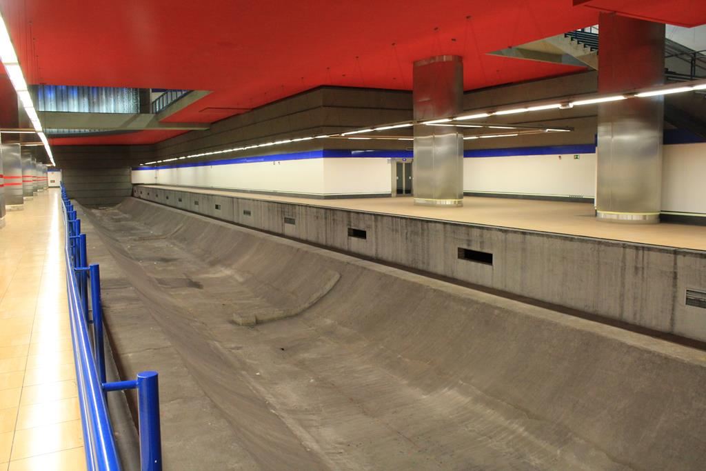 Unused platform (for future line 11 expansion) at Chamartín station on the Madrid Metro